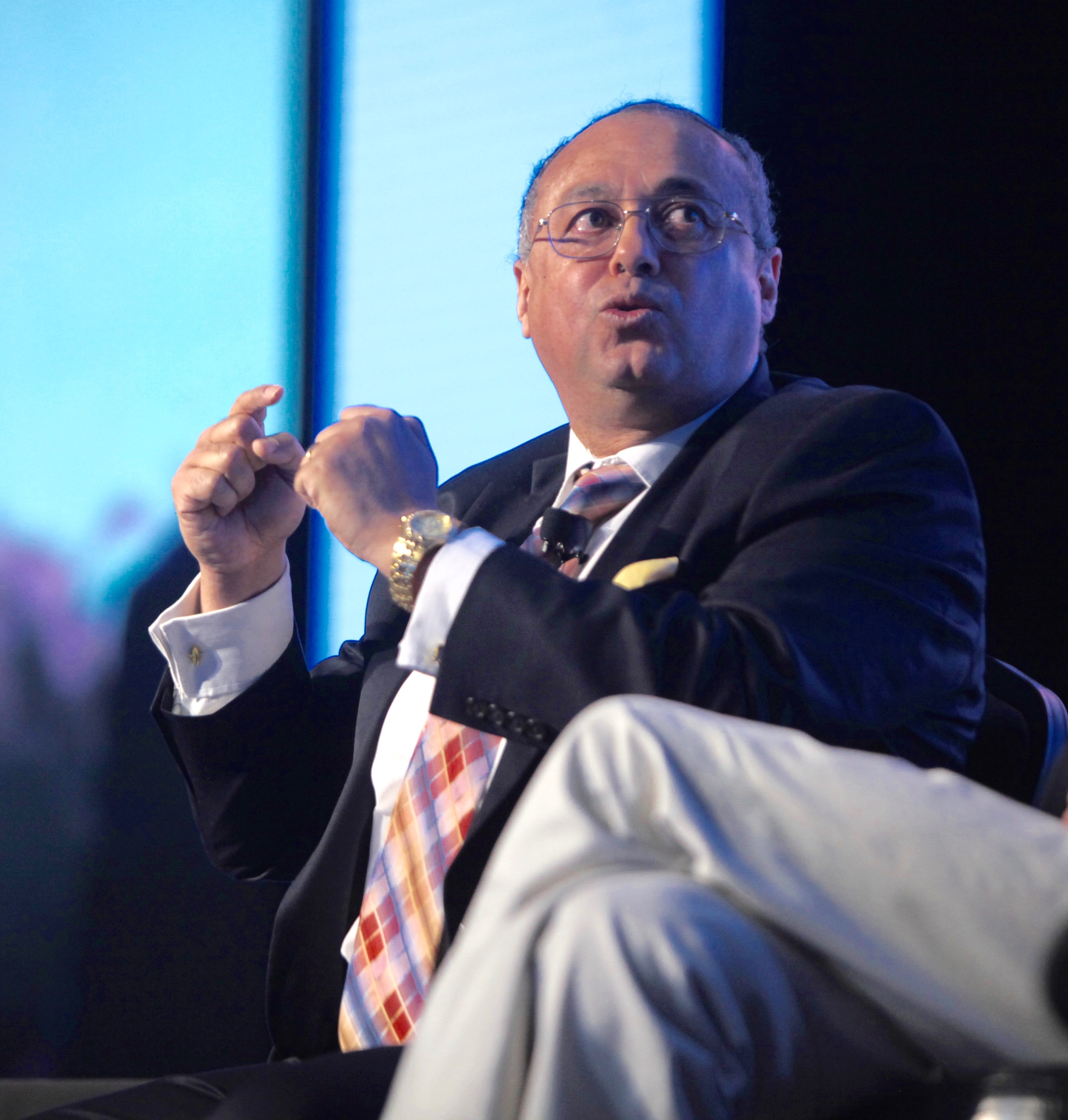 Tawfik Hamid speaking at the 2016 FreedomFest at Planet Hollywood in Las Vegas, Nevada.